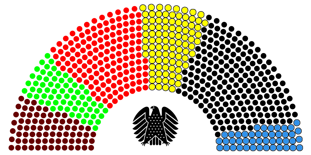 Structure diagram for the 17th Bundestag.